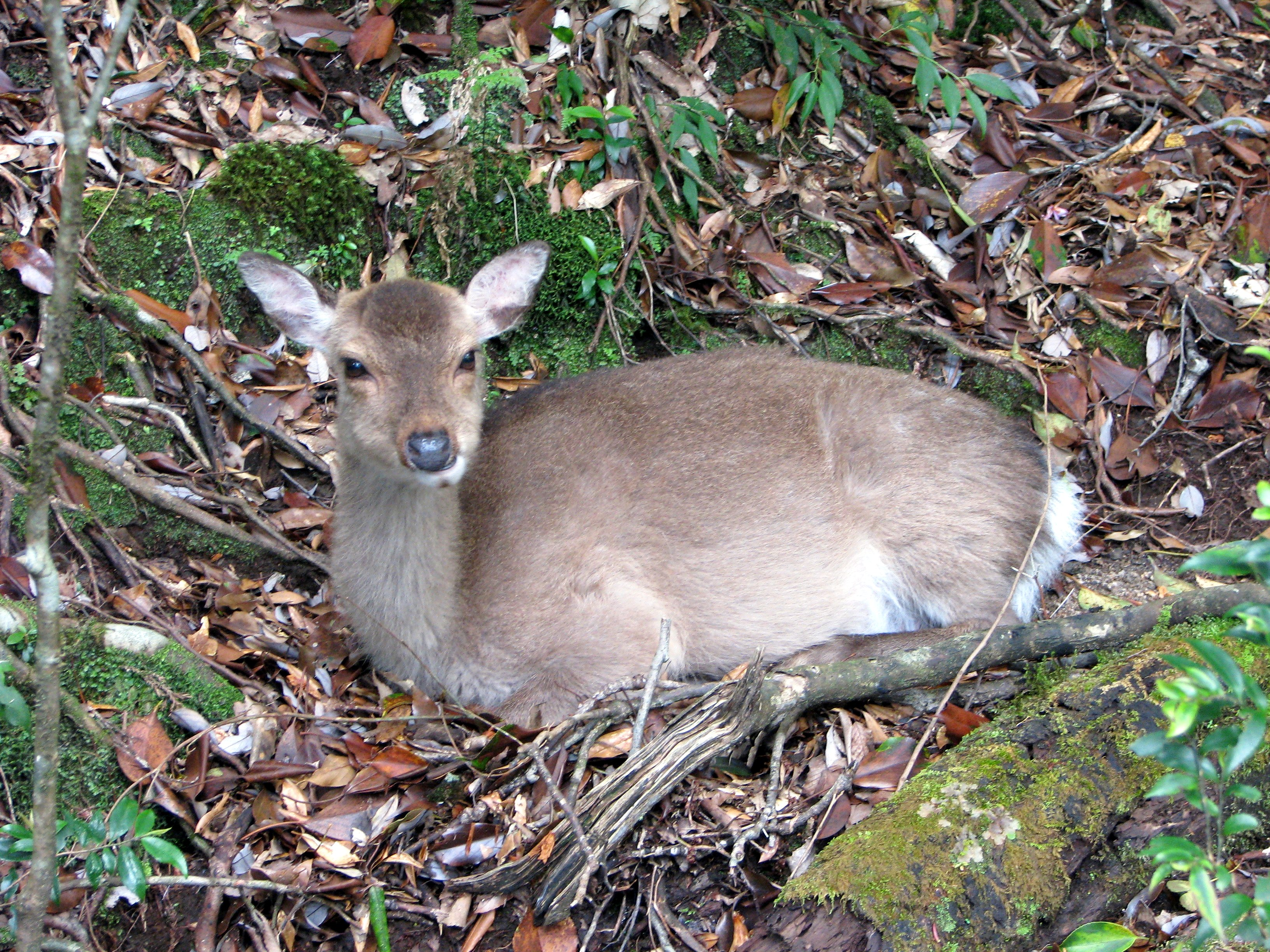 Yakushika (Yakushima-Deer) on Yakushima (Cervus nippon yakushimae)